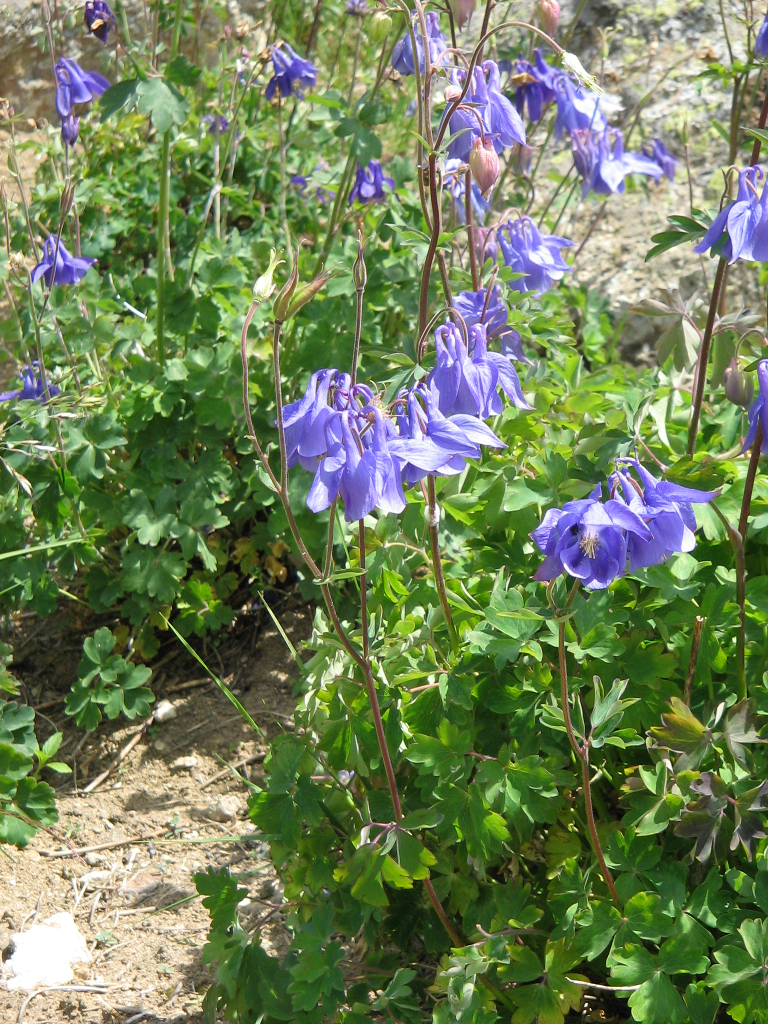 Aquilegia pyrenaica in the Alpine botanical garden of Lautaret, Hautes-Alpes, France.